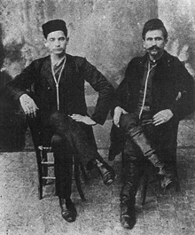 Ichko Dimitrov and Apostol Petkov